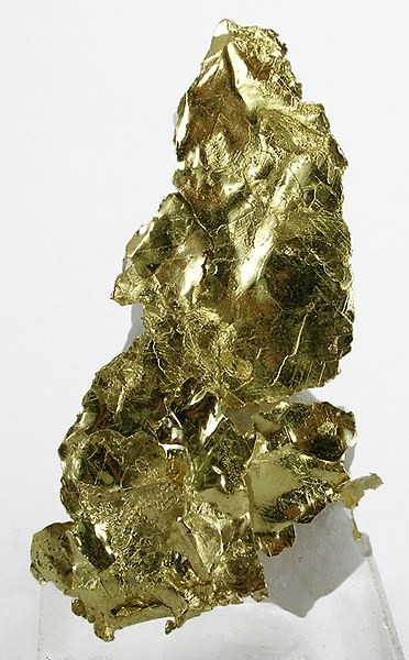 Gold, Calcite Locality: Bronzewing Mine, Bronzewing goldfield, Yandal greenstone belt, Leonora Shire, Goldfields-Esperance region, Western Australia, Australia (Locality at ) Size: 4.5 x 2.4 x 1.6 cm. From a small find that Rob Sielecki brought to the Denver show some years ago, this is a gorgeous leaf gold on calcite matrix. The brightness is amazing; it is literally like gold foil, super-reflective. This is what I call "crystallized leaf gold" because although the shape and thinness at first glance indicate a leafy gold without form, closer inspection shows flattened trigons and definite structure to the foil-thick leaf. It has amazing, tinfoil lustre and is incredibly beautiful.